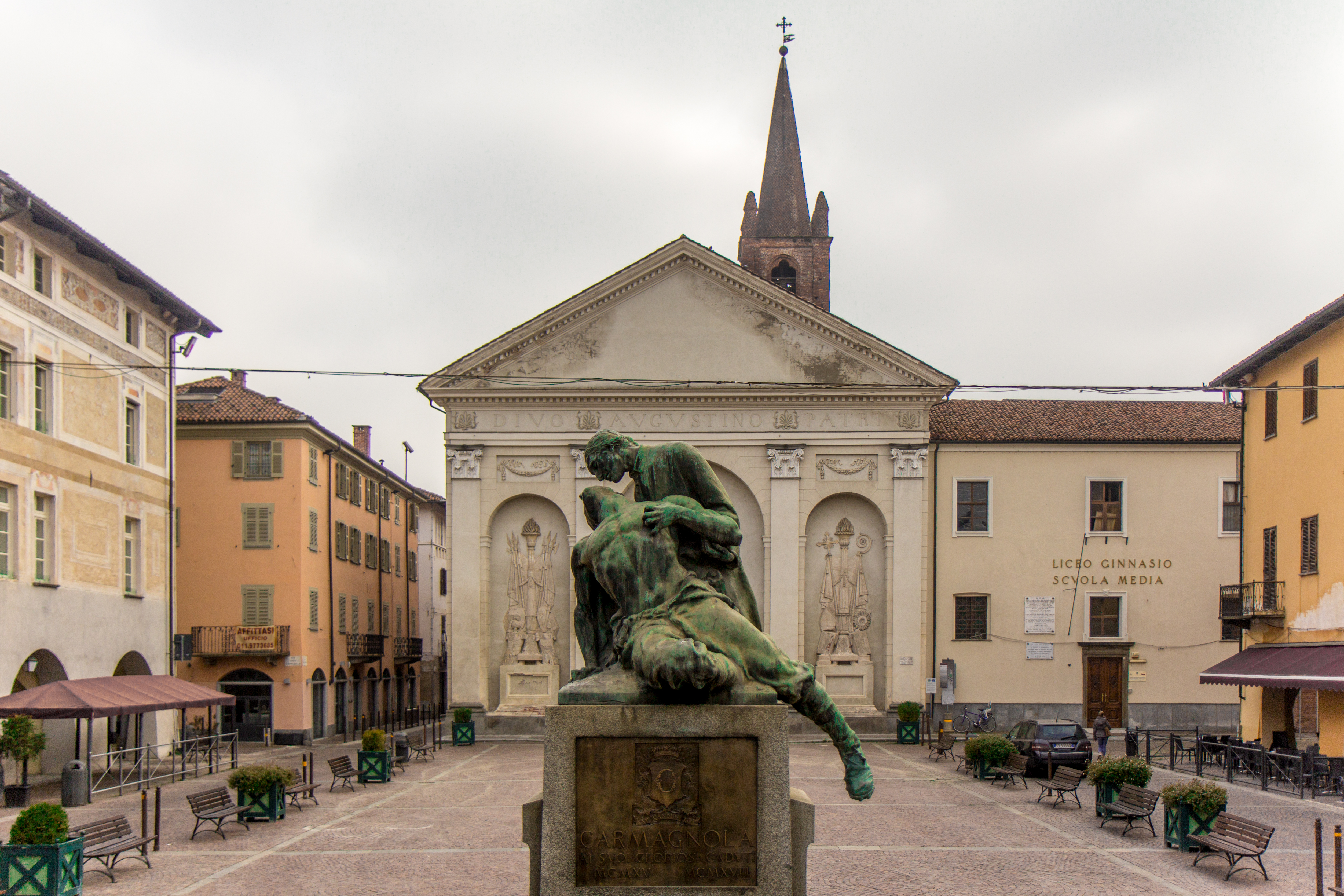 Sant'Agostino church with memorial fallen heroes in Carmagnola This is a photo of a monument which is part of cultural heritage of Italy.